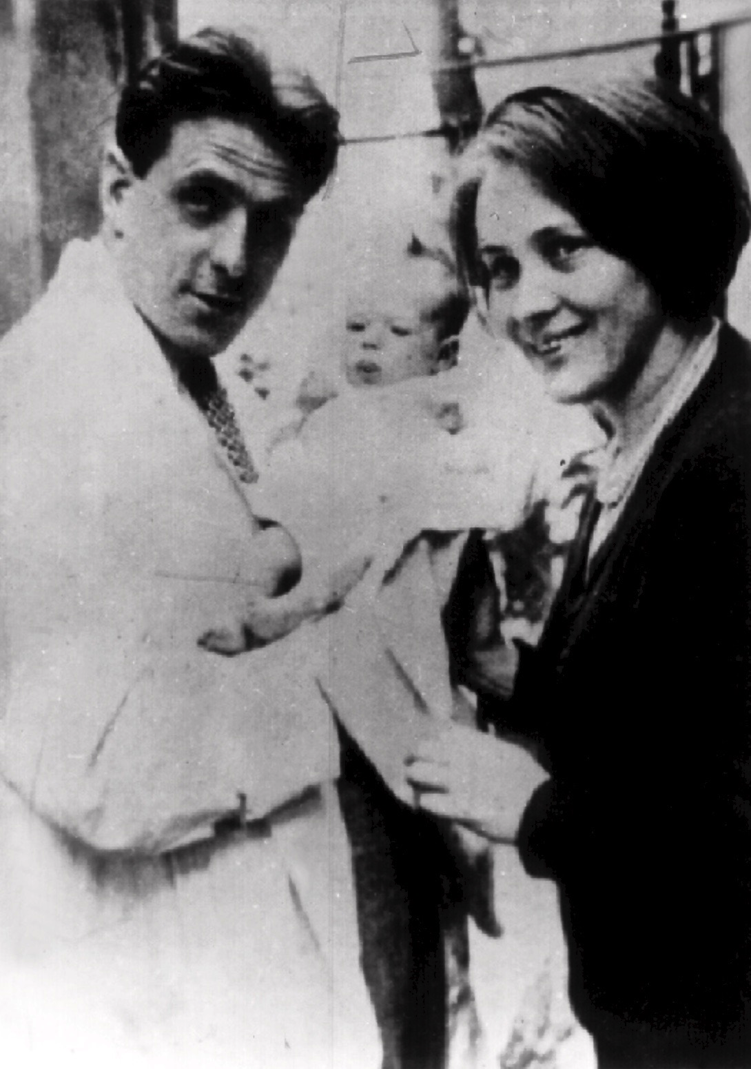 The German physicist Fritz Houtermans (1903–1966), his daughter Giovanna and his wife, the German physicochemist Charlotte Houtermans (1903–1993), née Riefenstahl, in Berlin, 1933